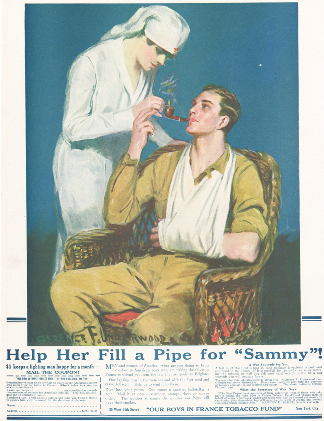 A poster solicits donations for a fund to send cigarettes to the front in WWI. A nurse lights a pipe for an injured soldier, who guides her hand.